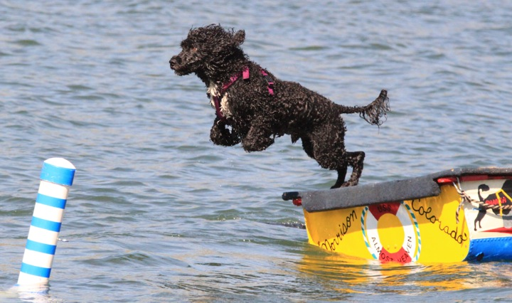 A Portuguese water dog competes during a water trial at Chatfield State Park in Colorado.